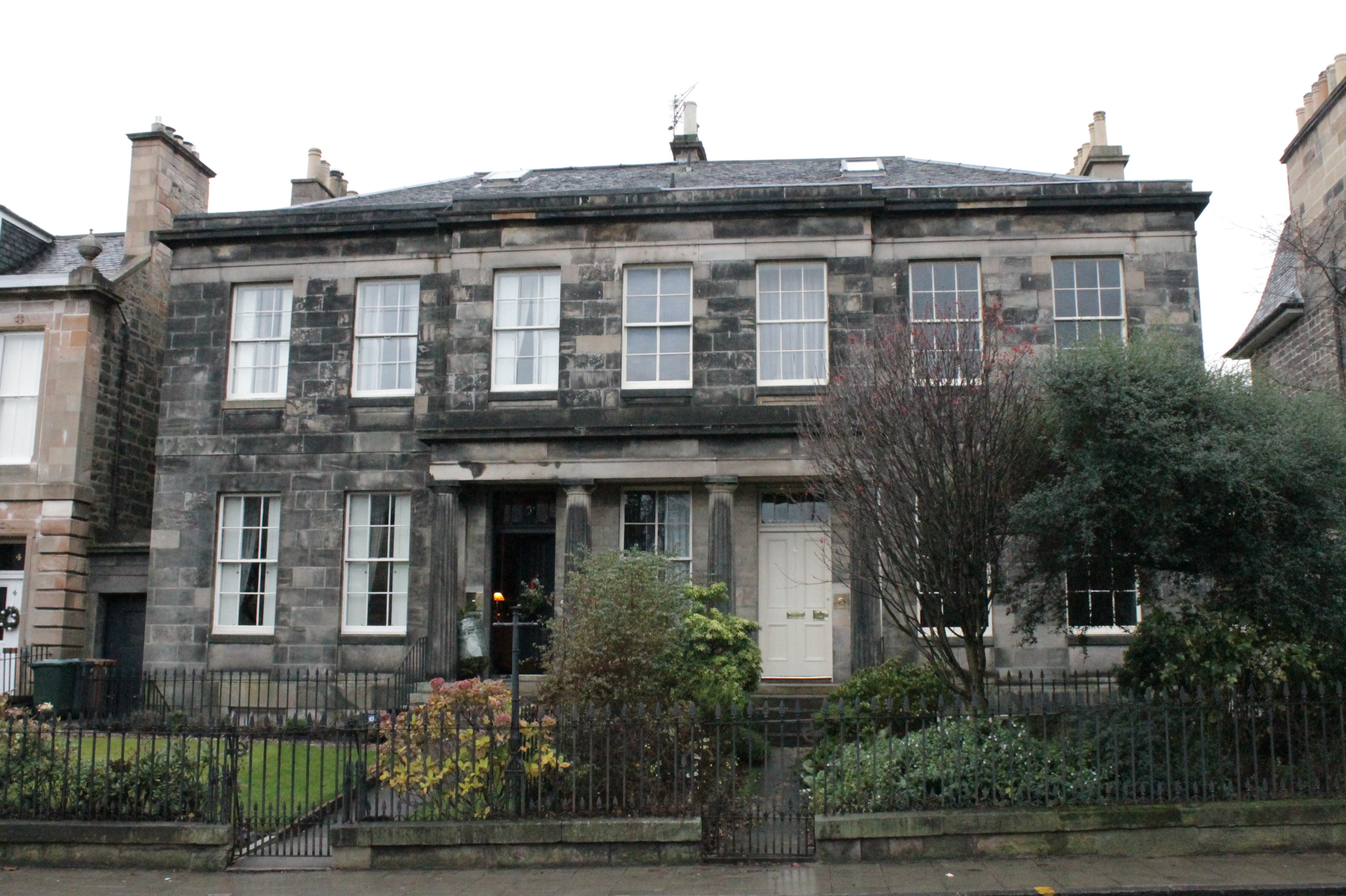 5 and 6 Inverleith Row